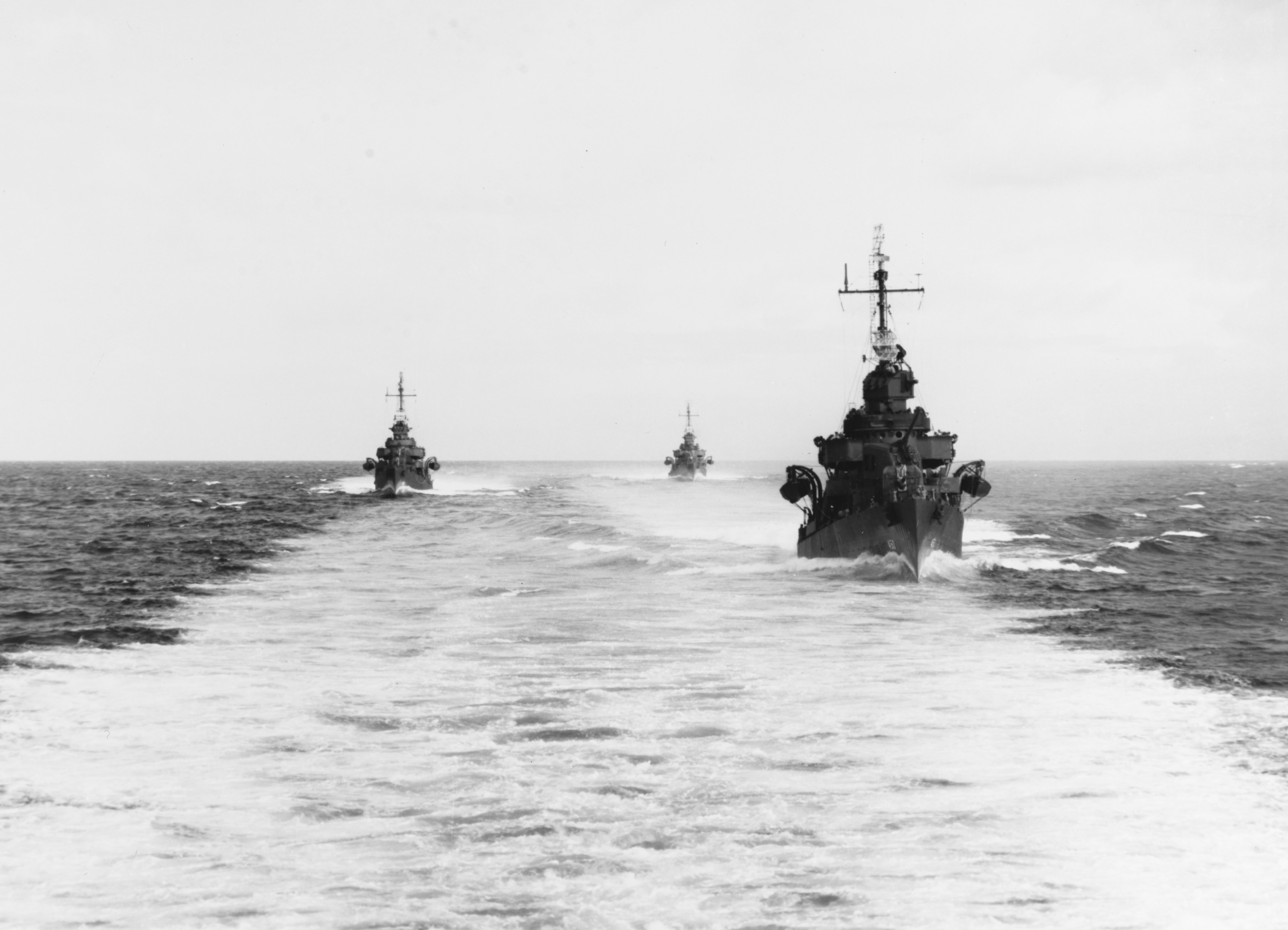 Three of the U.S. Navy Destroyer Squadron 21's ships underway in the Solomon Islands, 15 August 1943. The ships are (from front to rear): USS O'Bannon (DD-450), USS Chevalier (DD-451) and USS Taylor (DD-468). Photographed from USS Nicholas (DD-449), while the ships were enroute to the landings at Vella Lavella, which took place on the same day.